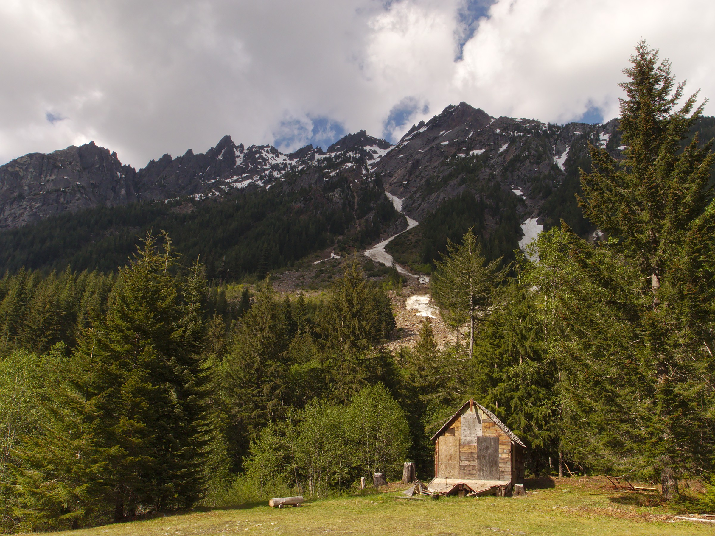 Looking northeast across the townsite of Monte Cristo, Washington.